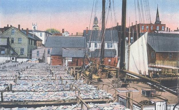 Drying fish, Gloucester, MA; from a c. 1915 postcard.